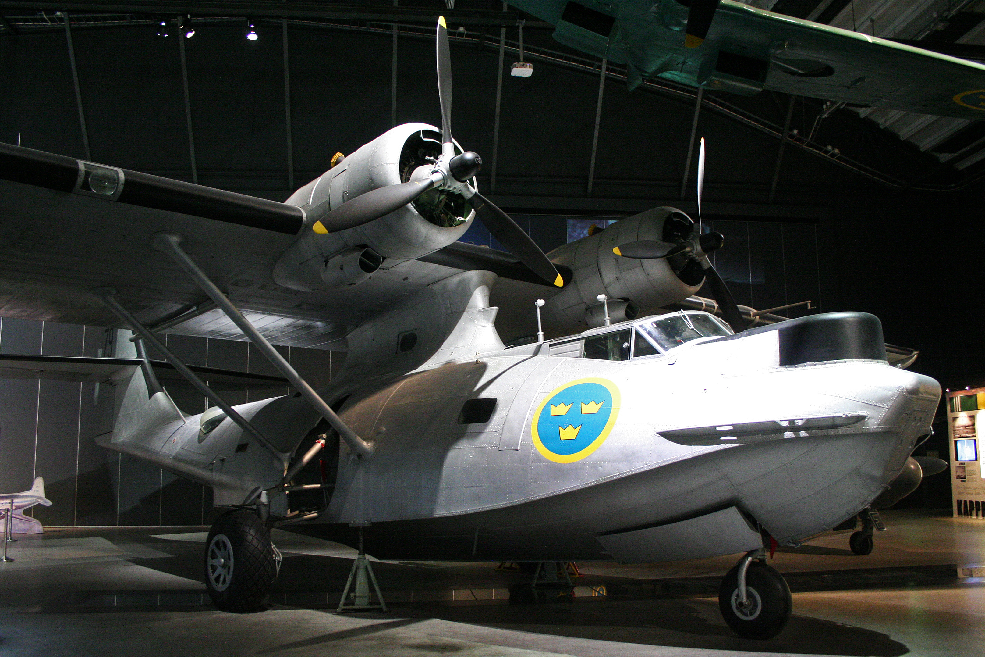 This is actually a Canadian built PBY which makes it a 'Canso' instead of a Catalina. It saw RCAF service as '9810' before passing to Sweden for SAR duties. msn CV-244. On display in the Cold War Hall at the Flyvapenmuseum, Malmen, Sweden. 04-06-2012